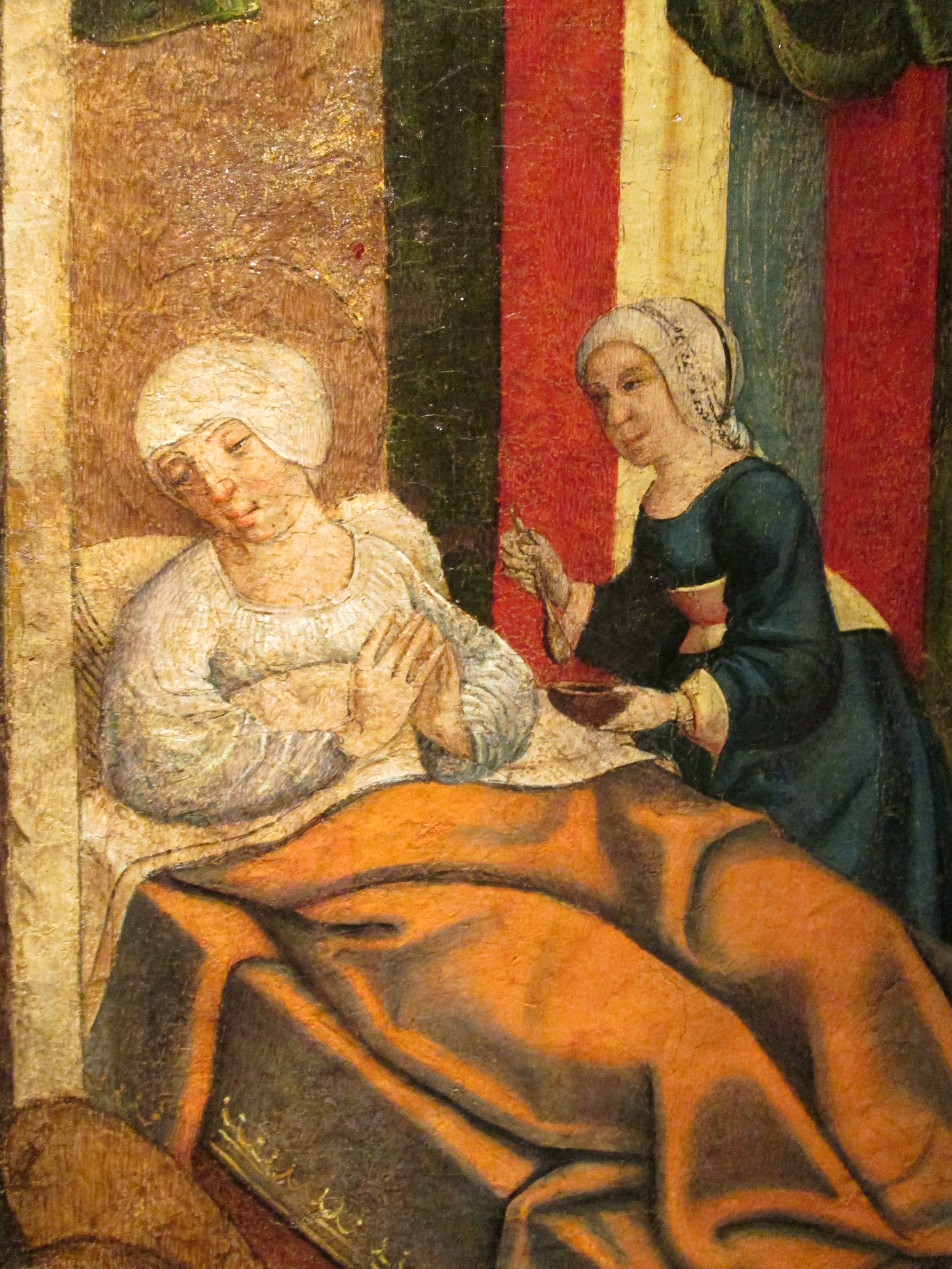 Elisabeth, mother of John the Baptist, detail from The Birth of Saint John the Baptist, attributed to a Master from Villalcazar de Sirga, Diocesan Museum of Zaragoza, Aragon, Spain.